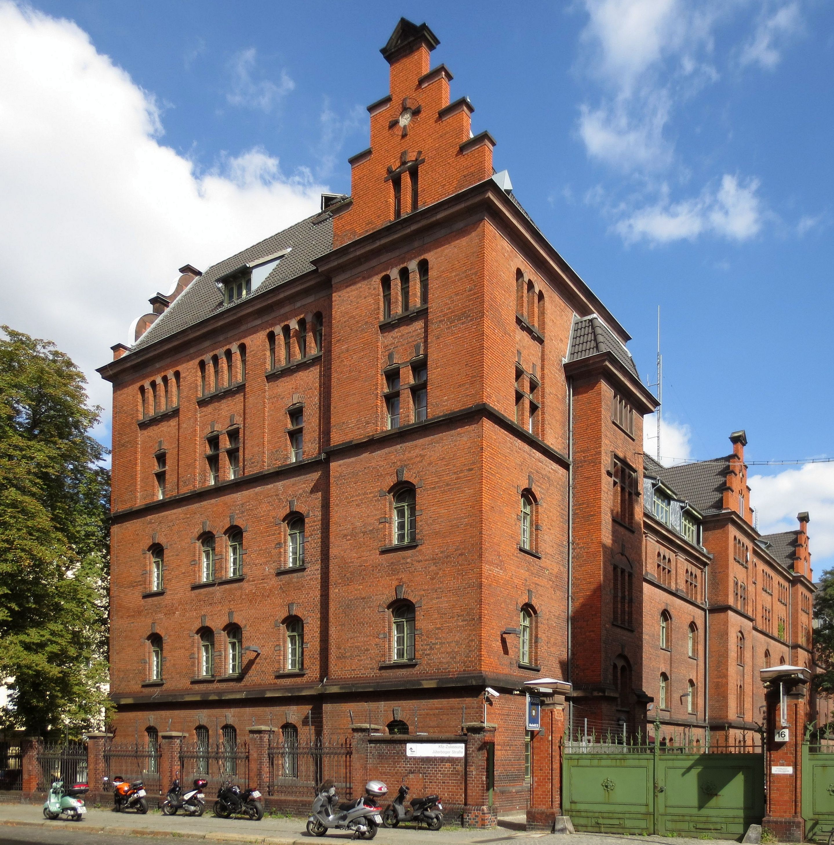 Building of the Berlin Police Department No. 5 and of Section No. 52 at Jüterboger Straße No. 4 in Berlin-Kreuzberg, here seen from Friesenstraße. The building belongs to the former complex of the military barracks of the Königin-Augusta-Garde-Grenadier-Regiments Nr. 4 and the Garde-Kürassier-Regiments, which was built from 1895 to 1897 by Schönhals, Vetter, von Lilienstern, Müssigbrodt, and Schäfer on a large compound between Jüterboger Straße, Friesenstraße, Golßener Straße and Columbiadamm. The whole complex, consisting of more than 20 historic buildings, has been designated as a cultural heritage monument.